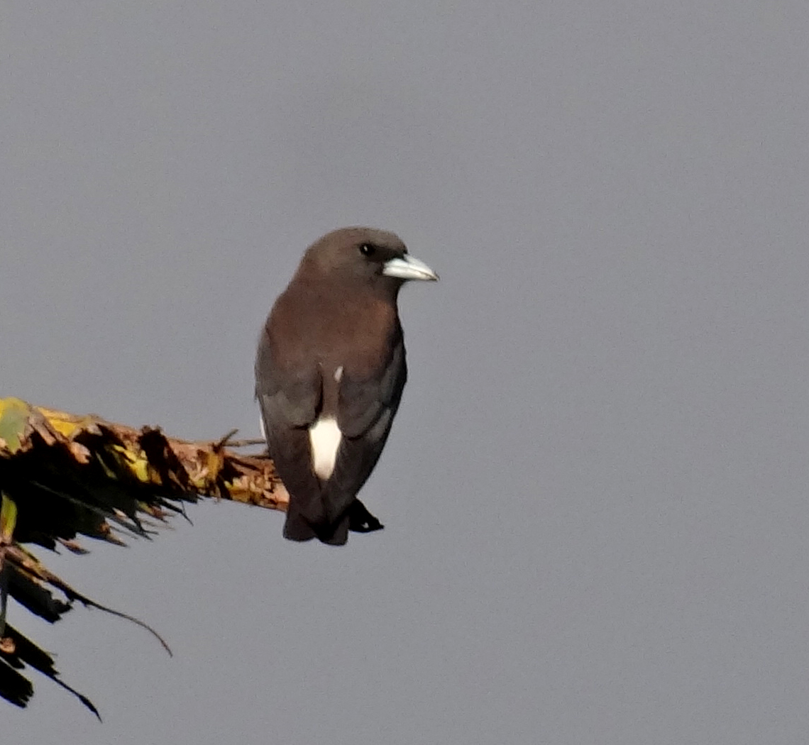 White-breasted Woodswallow